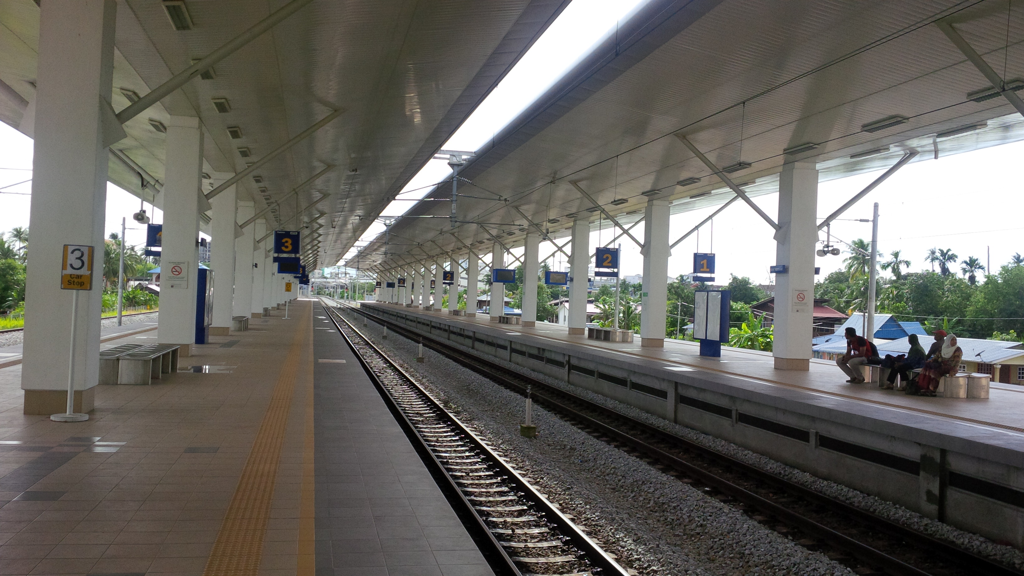 View of the platform area of the new Bukit Mertajam Railway Station in August 2015.